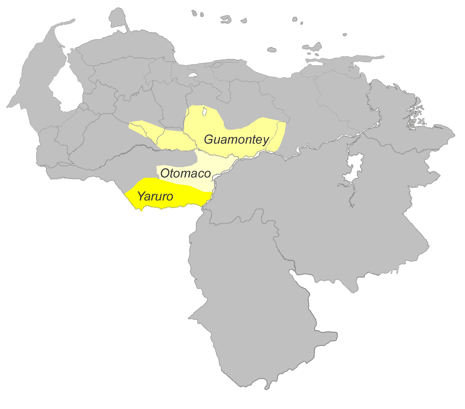 Language isolates of the Llanos in Western Venezuela